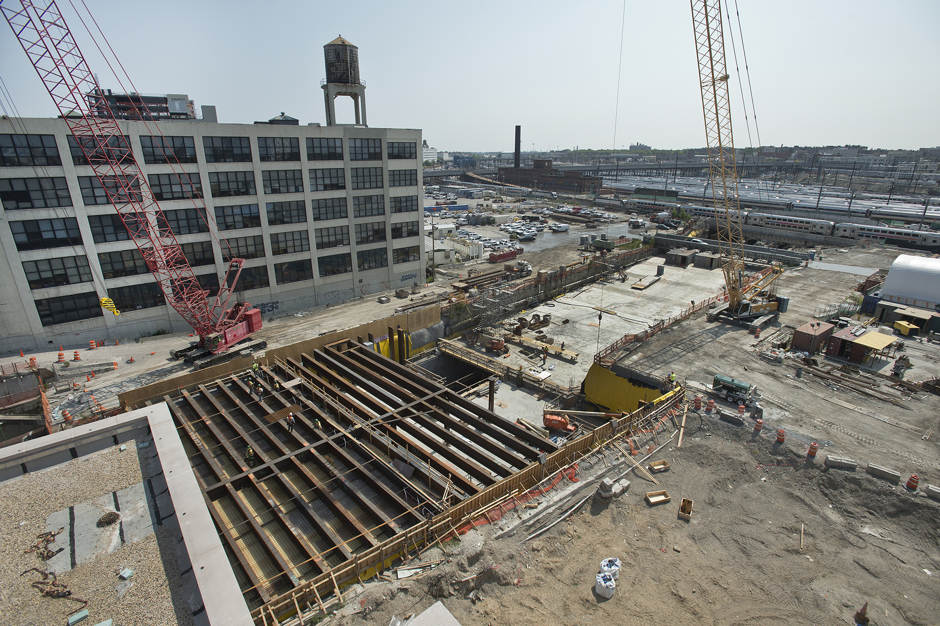 Images in and around the area that contain Plaza Substations and Queens structures as part of the Queens side of East Access Project. Photo: Metropolitan Transportation Authority / Patrick Cashin